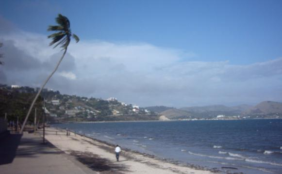 description: Ela Beach, Port Moresby, Papua New Guinea source: contributed by the photographer (made in 2004)